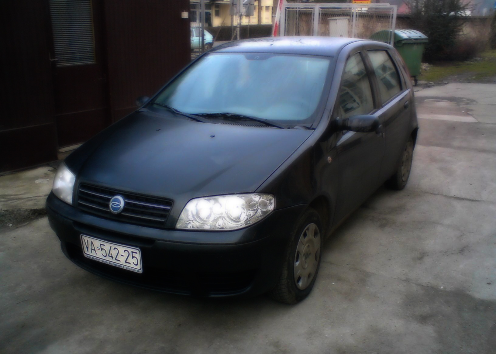 Zastava 10